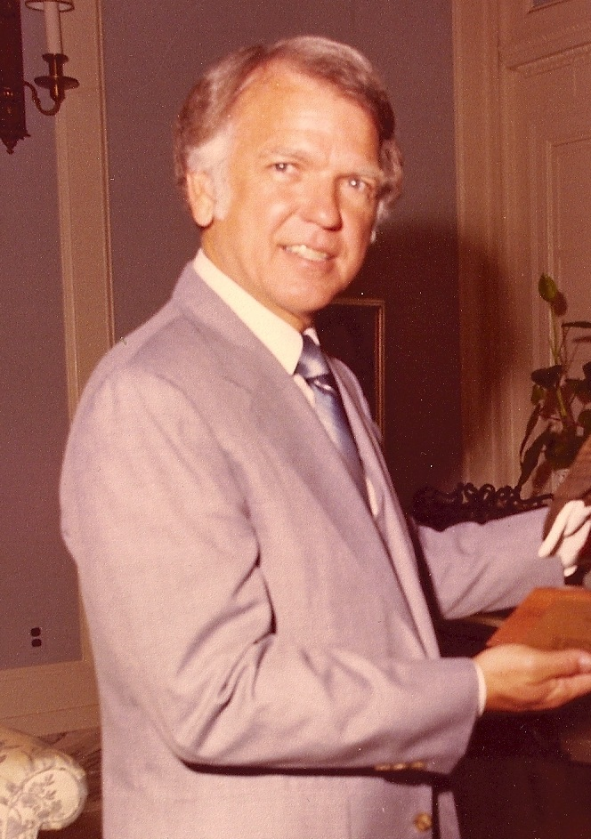 Governor of Oklahoma George Nigh.